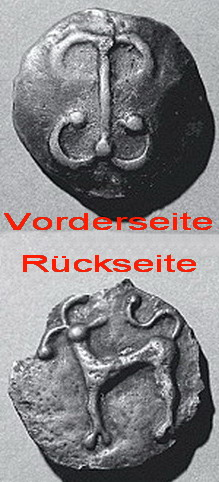 so called "Zürich type" Potin coins, La Tène culture Die Potinmünze vom Zürcher Typ weist auf der Vorderseite ein Doppelanker-Ornament auf, auf der Rückseite ein nicht eindeutig identifizierbares, gehörntes Tier (vielleicht ein Hirsch) mit geschweiftem Schwanz. Am 3. Juli 1890 kamen in einer Baugrube beim damaligen Börsengebäude an der Bahnhofstrasse 1 in 5,5 Metern Tiefe mehrere Metallklumpen zum Vorschein, deren grösster 59,2 kg wiegt. Die Brocken bestehen aus einer grossen Anzahl miteinander verschmolzener keltischer Münzen, die mit Holzkohlestücken durchmischt sind. Es lassen sich zwei Münztypen unterscheiden: Potinmünzen vom sogenannten Zürcher Typ, die einheimischen Helvetiern zuweisbar sind, und Potinmünzen der in Ostgallien beheimateten Sequaner. Insgesamt wurden gegen 18'000 Potinmünzen aufgeschmolzen, welche sich in die Zeit um 100 v. Chr. datieren lassen. Beschreibung aus: Infoblatt Keltisches Geld in Zürich: Der spektakuläre «Potinklumpen». Amt für Städtebau der Stadt Zürich, Stadtarchäologie (Hrsg.). Zürich, Oktober 2007.